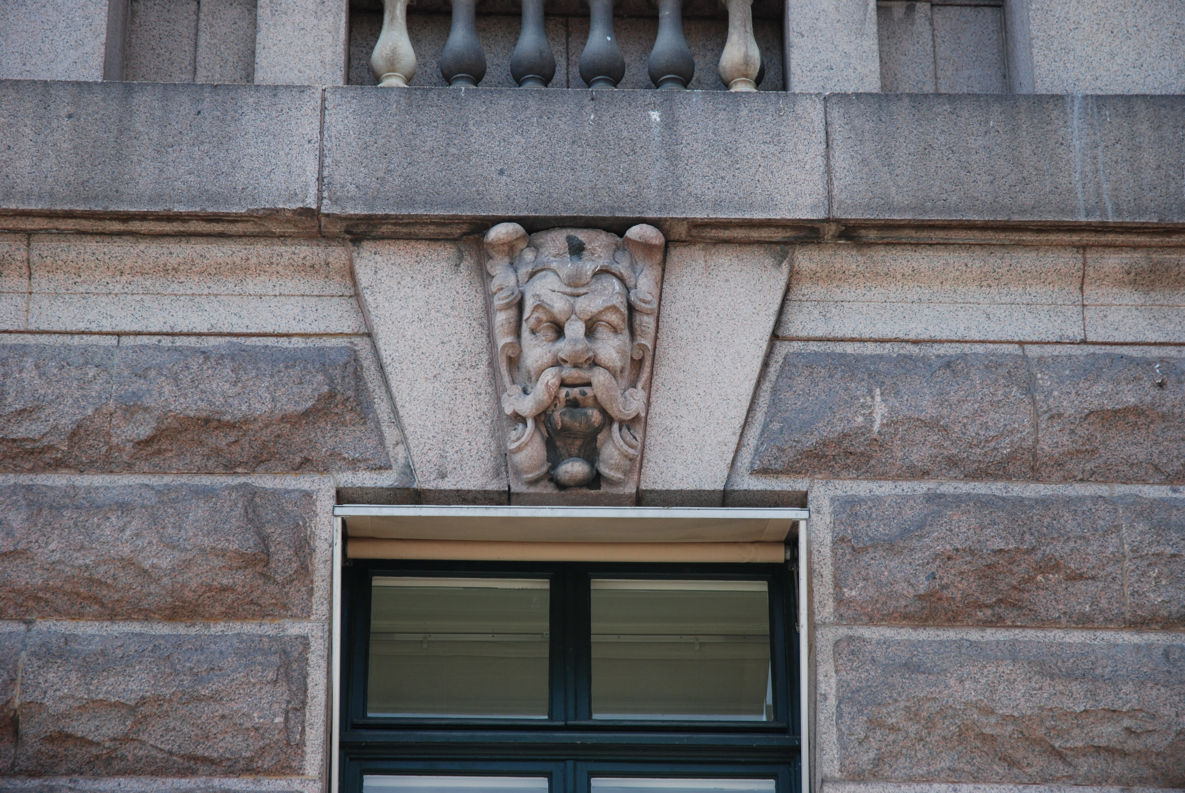 Portrait of architect Aron Johansson at eastern facade of Swedish Parliament building in Stockholm